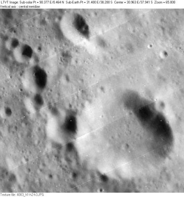 Wöhler is in the lower right. The elongated 11-km crater at the top is Wöhler B, while Wöhler A is the 8-km crater in the middle of the sinuous line at about 10 o’clock from the center of Wöhler. The other craters in this view are unnamed.